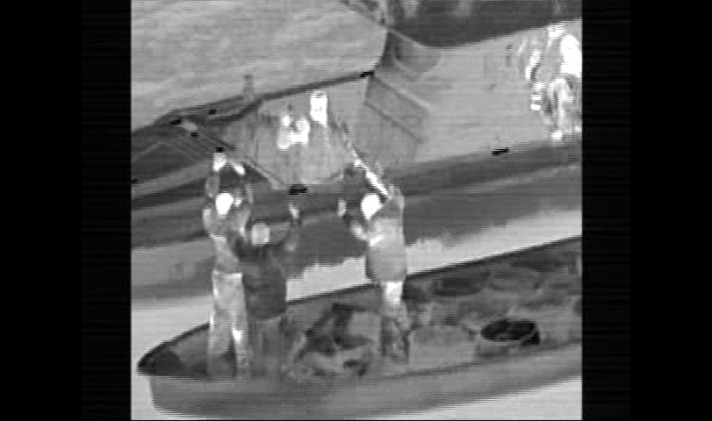 PACIFIC OCEAN (May 6, 2012) Alleged drug traffickers are arrested by Colombian naval forces in this still frame from a forward-looking infrared (FLIR) video camera from a U.S. Navy helicopter assigned to the guided-missile frigate USS McClusky (FFG 41) during interdiction operations in the eastern Pacific coastal waters of Colombia. The helicopter maintained surveillance as the Colombian navy made the arrest. (U.S. Navy photo/Released) 120506-N-ZZ999-002 Join the conversation navylive.dodlive.mil